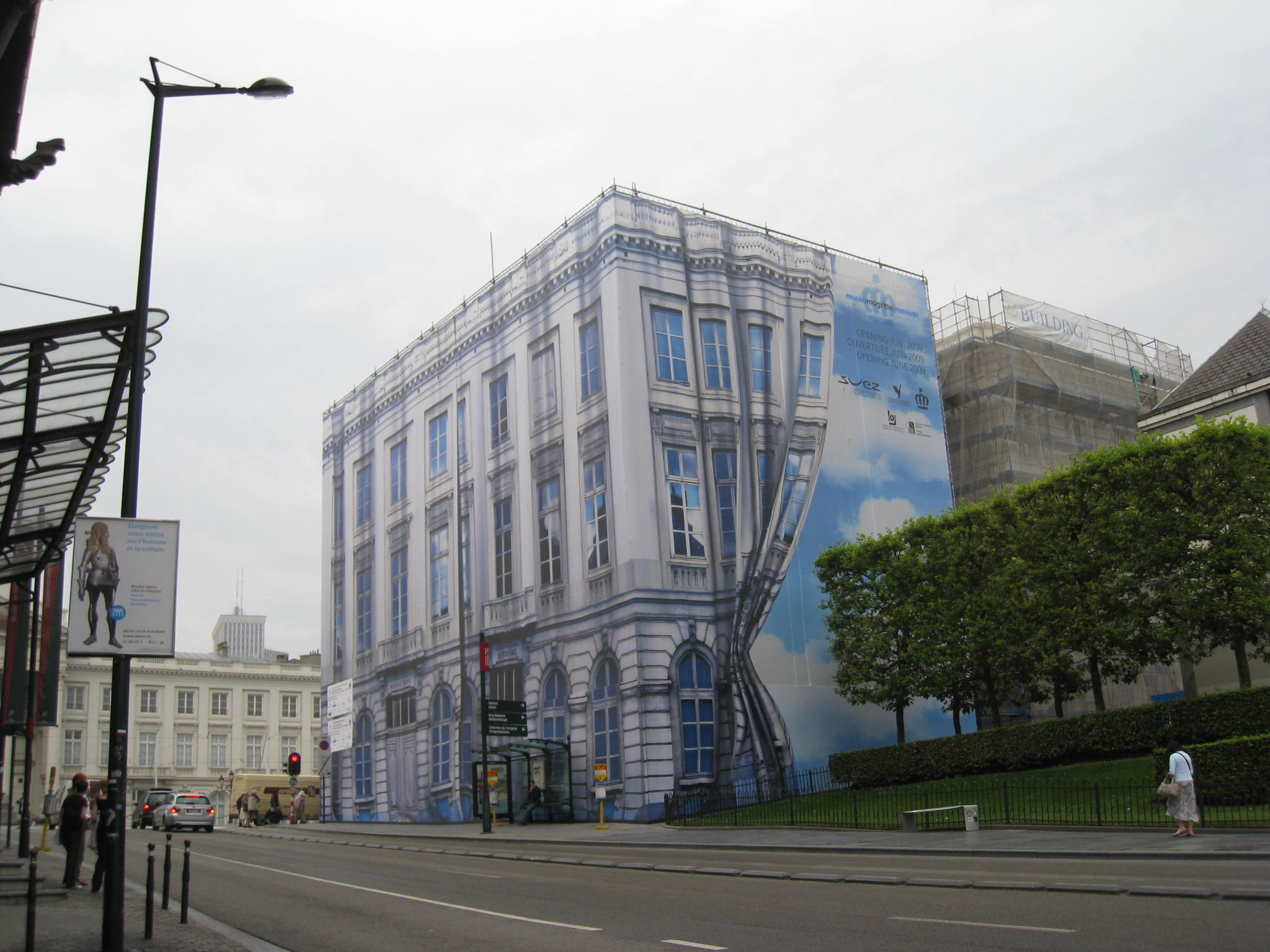 Museum Magritte, Koningsplein, Brussel, 2008